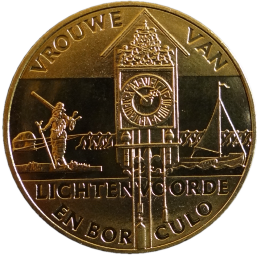 Coin_bredevoort